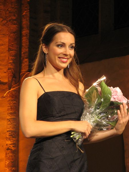 Adriana Kučerová in the Cloître des Jacobins on 24 July 2008